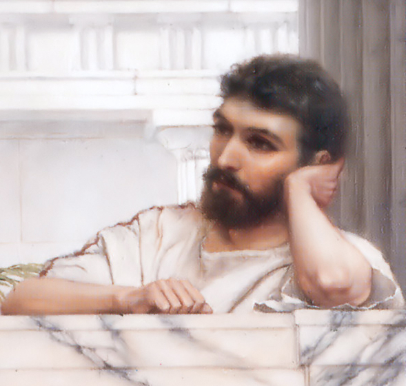 Possibly a self portrait. Fragment from Waiting for an Answer (1889)